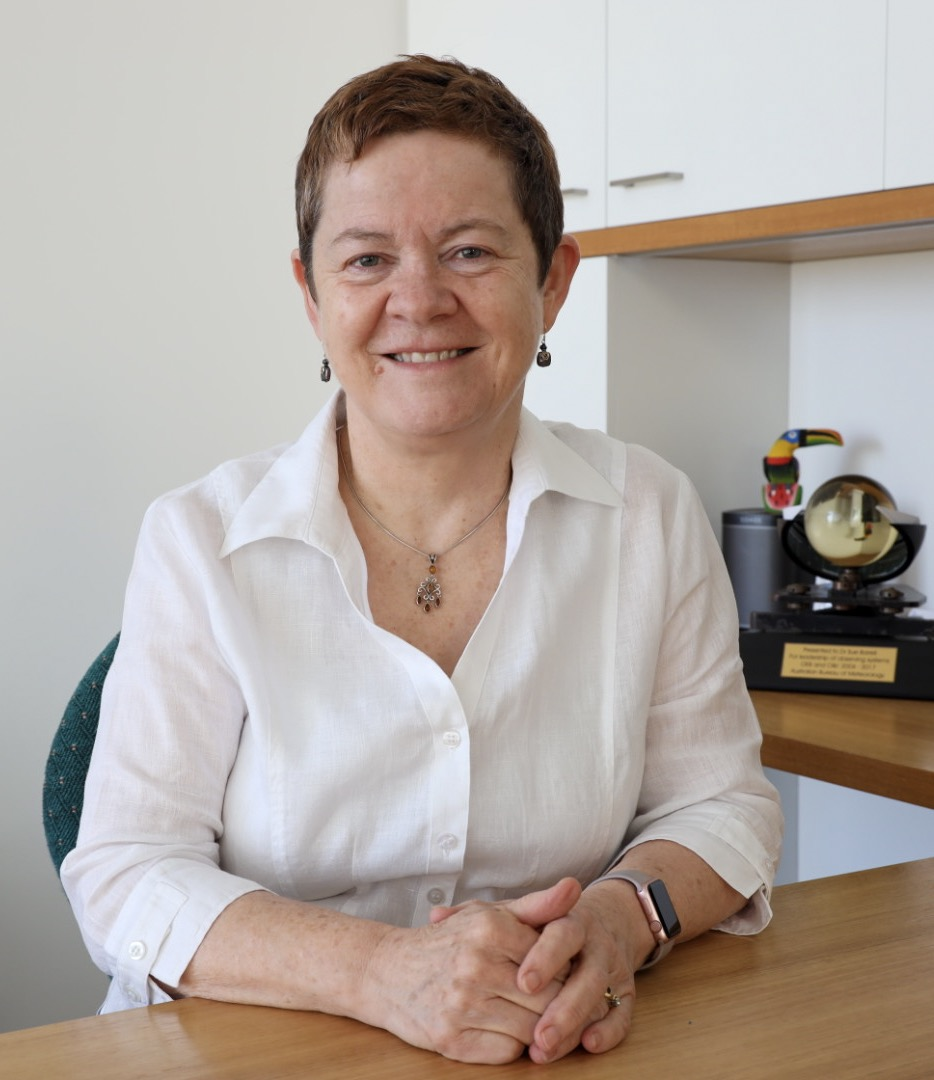 Sue Barrell, one of the first women meteorologists at the Bureau of Meteorology.